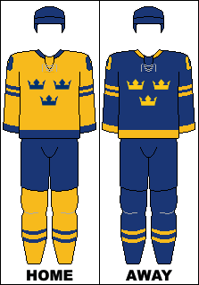 The home and away jerseys of the Swedish national ice hockey team. The Tre Kronor logo in the middle is based on this file:.